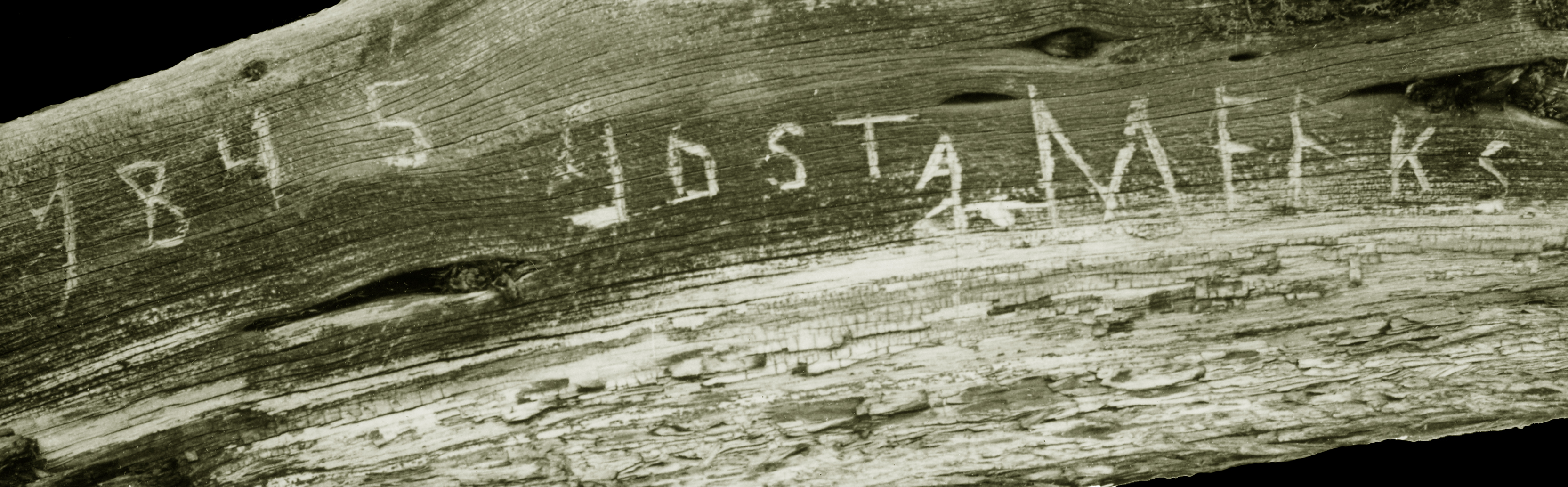 Photo of tree limb in the Deschutes County Museum